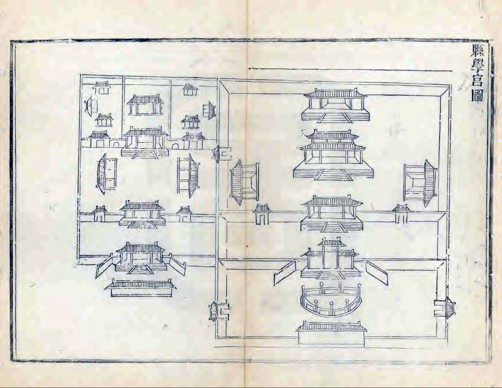 An ancient map of Xiangfu Confucian Temple (1898)